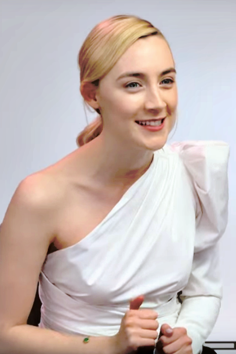 Saoirse Ronan promoting Lady Bird in 2018